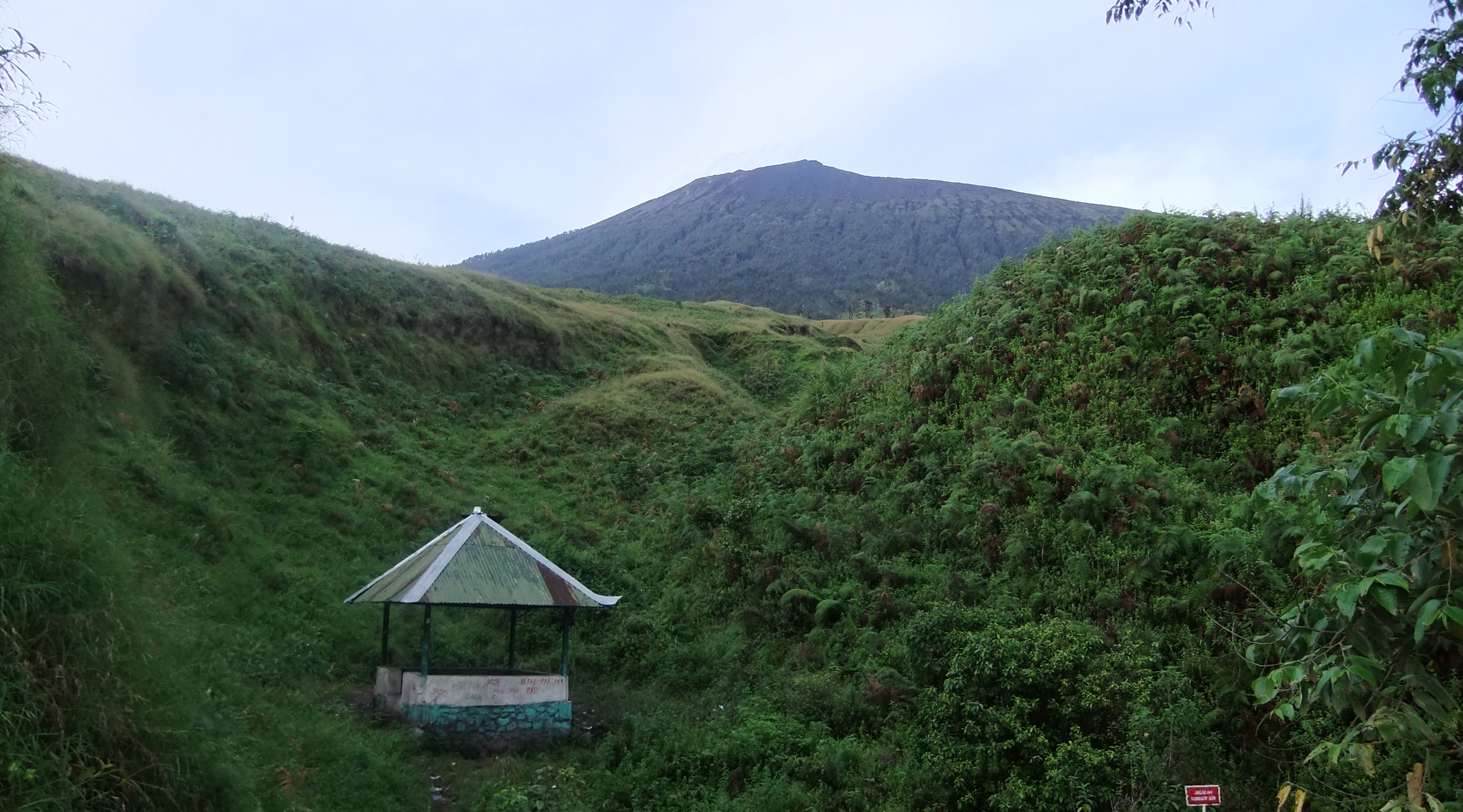 Post 2 Tengengean, Sembalun-Plawangan II route